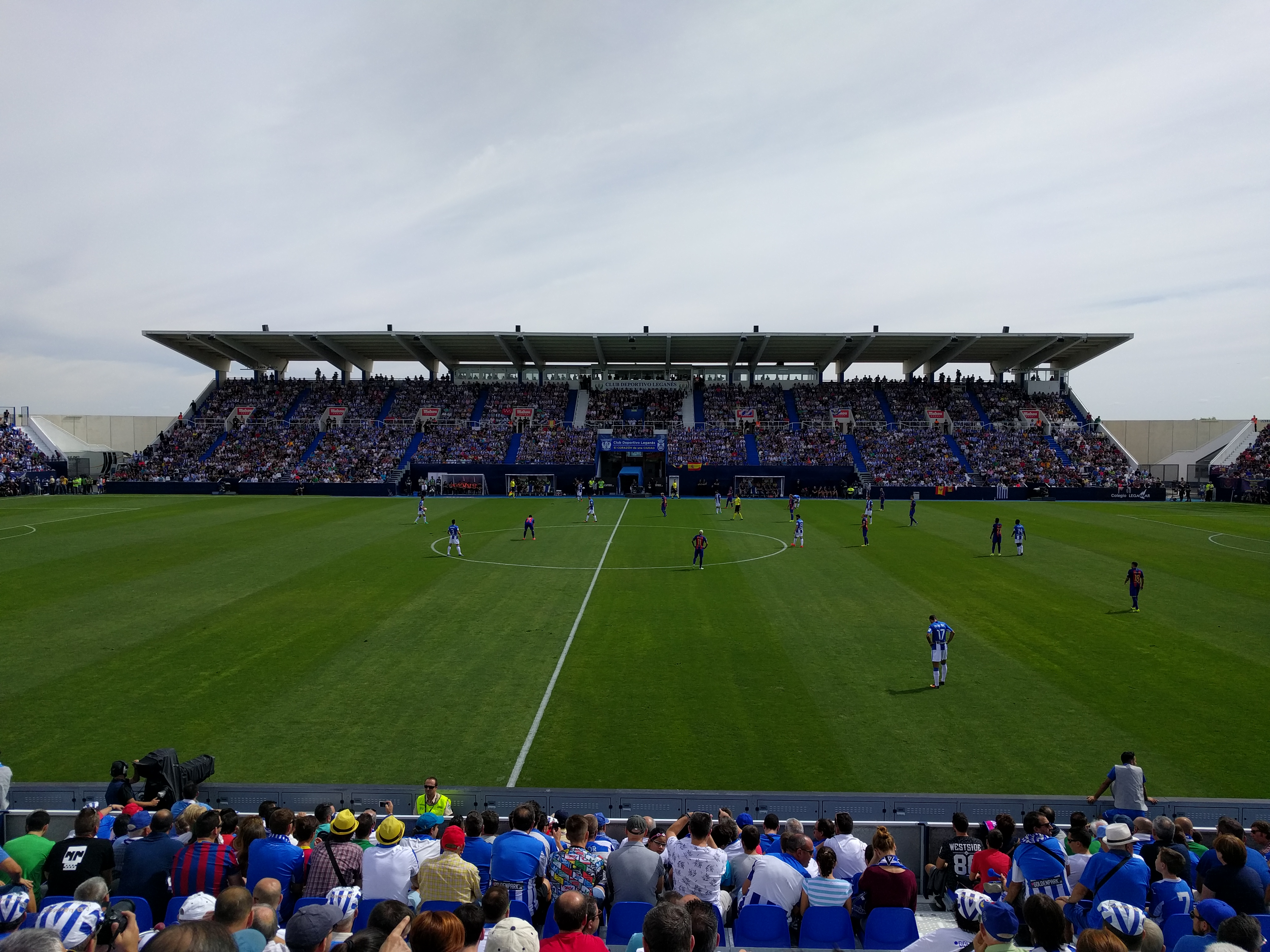 CD Leganés 1:5 FC Barcelona, 17th September 2016